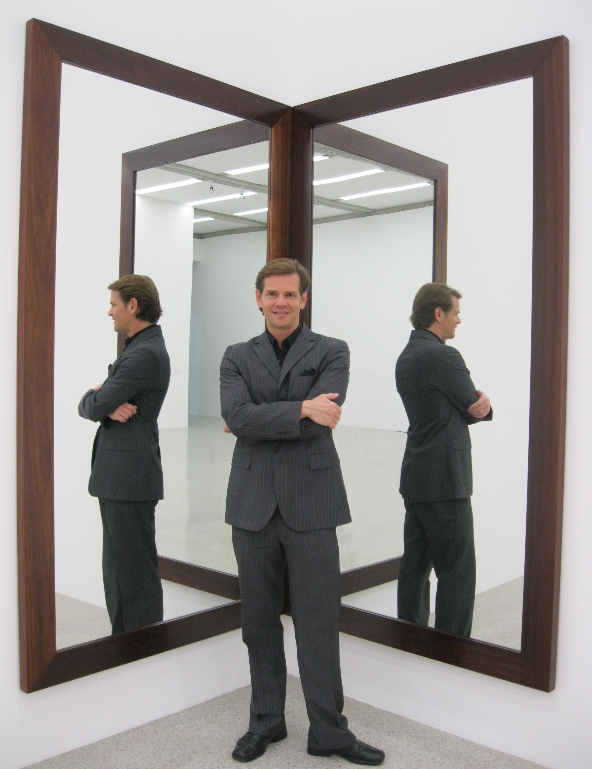 photo of American conductor Paul Mauffray taken in Vienna, Austria in 2012